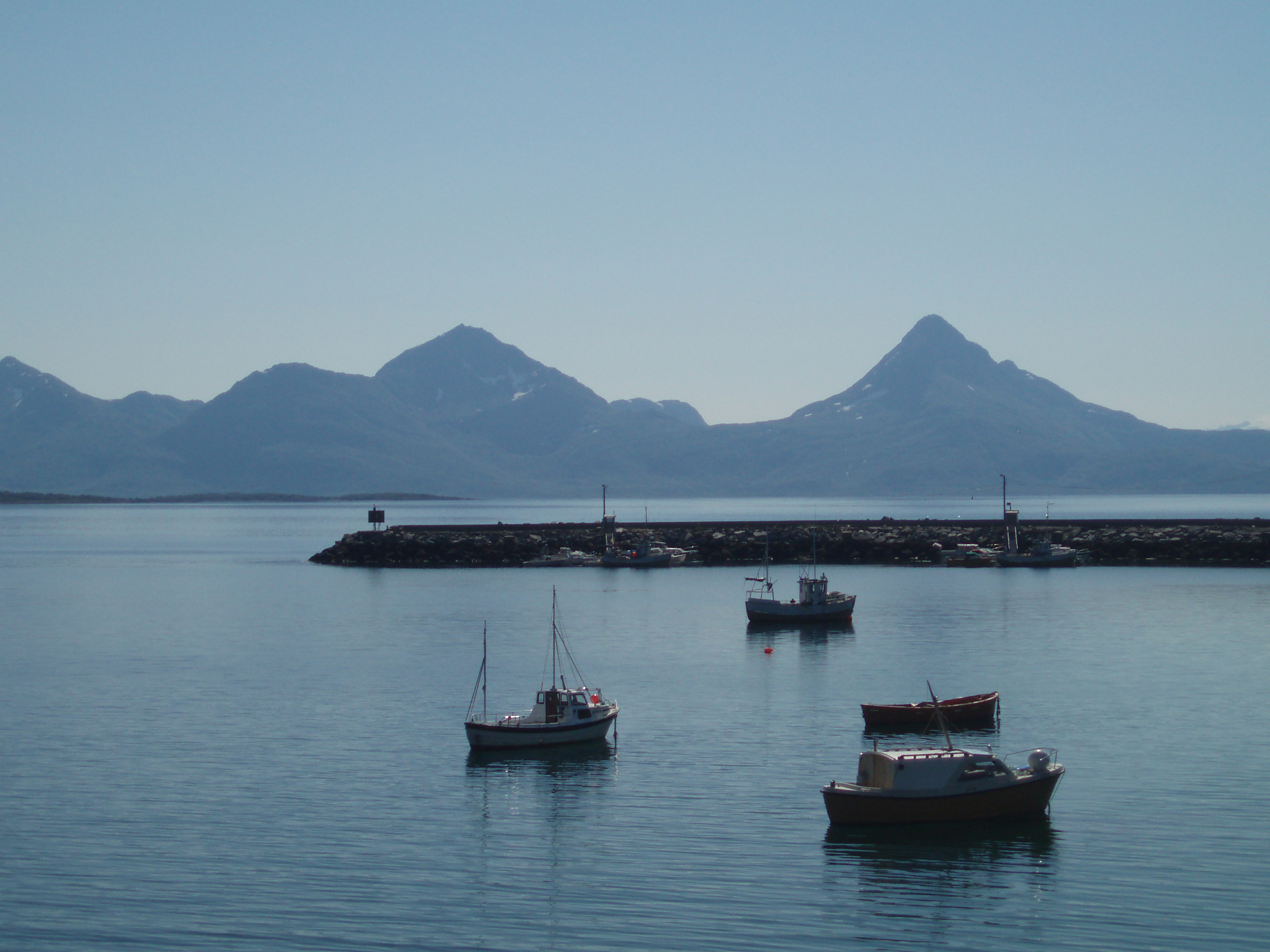 Skutvik in Hamarøy, Nordland, Norway. View towards Steigen